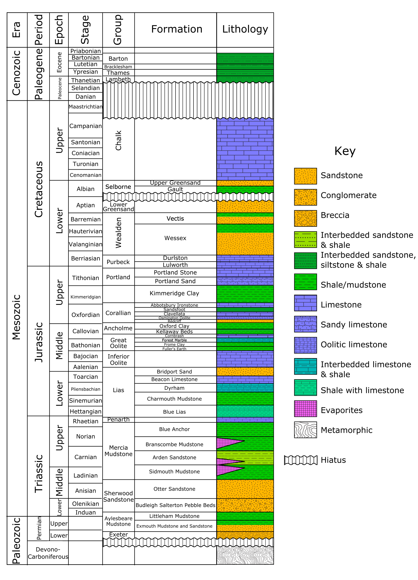 Lithostratigraphy of the Wessex Basin, modified after Worden et al. 2016, with additional information from the BGS lexicon of named rock units